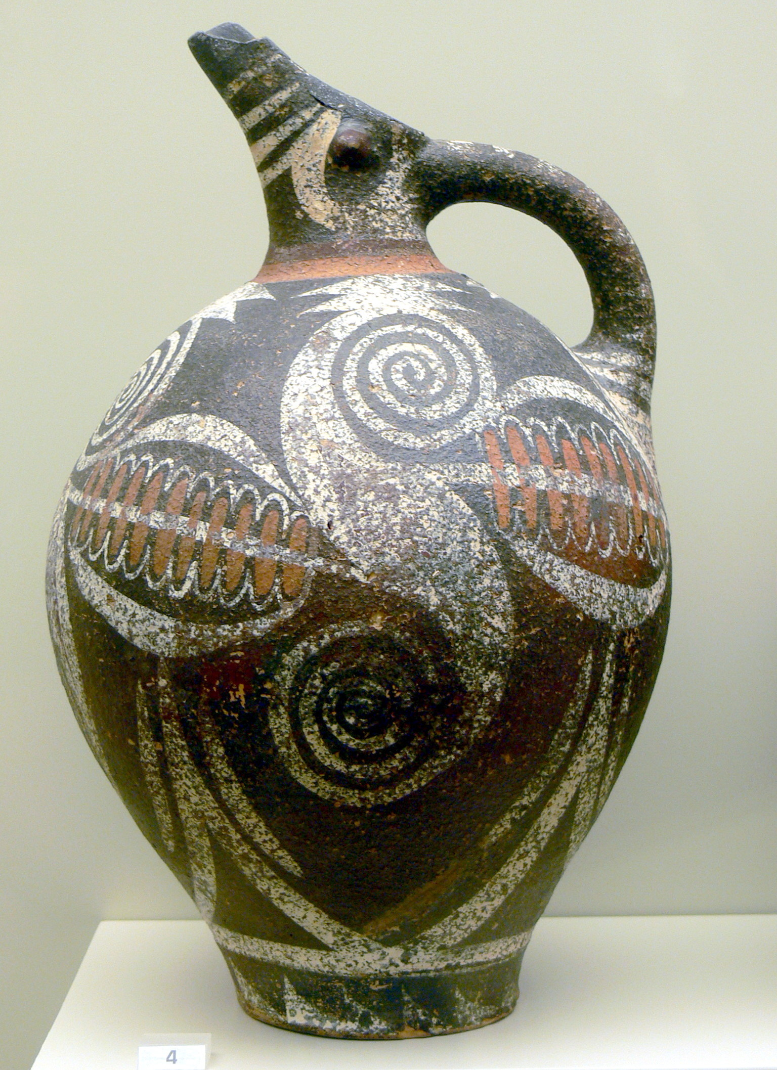 Archaeological Museum of Herakleion. Kamares-style pottery. Old palatial period ( 2100-1700 B.C. )